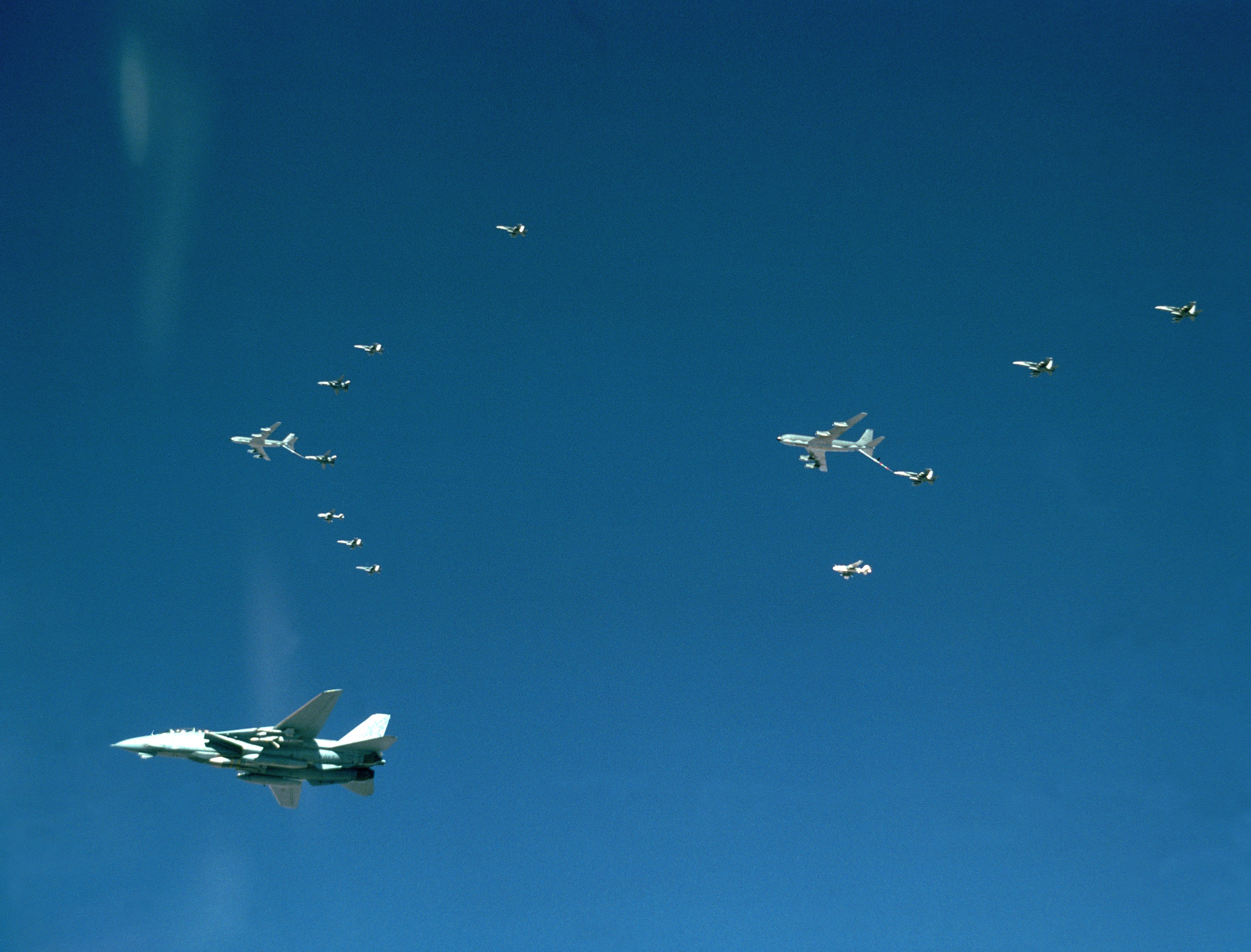 F/A-18 Hornet and A-6E Intruder aircraft from Carrier Air Wing 1 (CVW-1) conduct an in-flight refueling with a pair of U.S. Air Force KC-135R Stratotanker aircraft while en route to their target during Operation Desert Storm. A Fighter Squadron 33 (VF-33) F-14A Tomcat aircraft, also from CVW-1, is in the foreground. CVW-1 is based aboard the aircraft carrier USS AMERICA (CV 66).